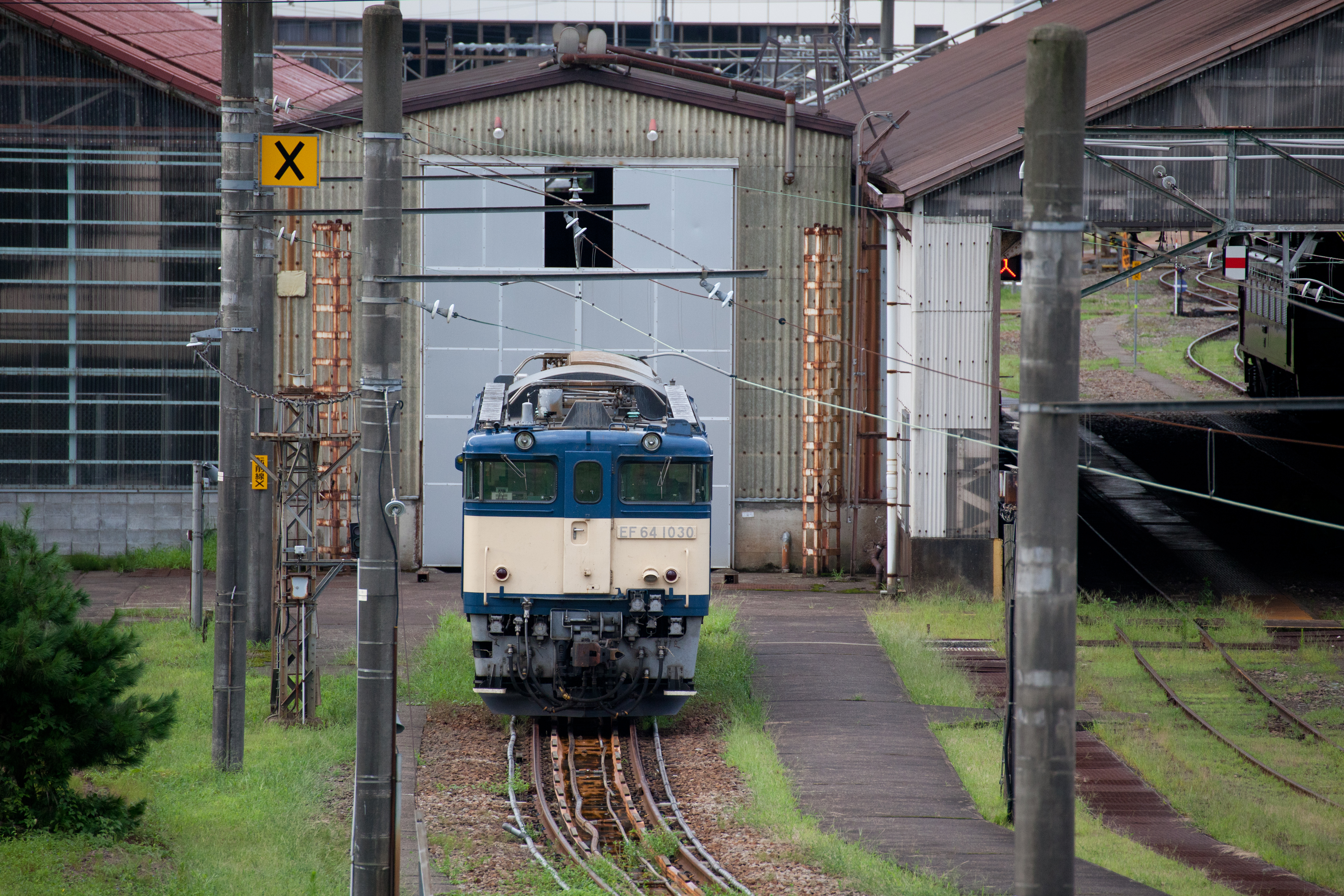 EF64-1030, Nagaoka Rolling Stock Center